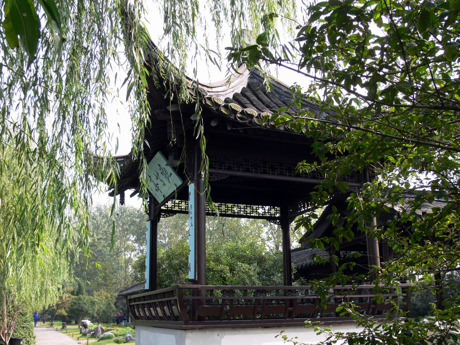 Herbaceous peony viewing pavilion in Thin West Lake, with Zheng Xia caligraphed board 瘦西湖郑板桥题观芍亭